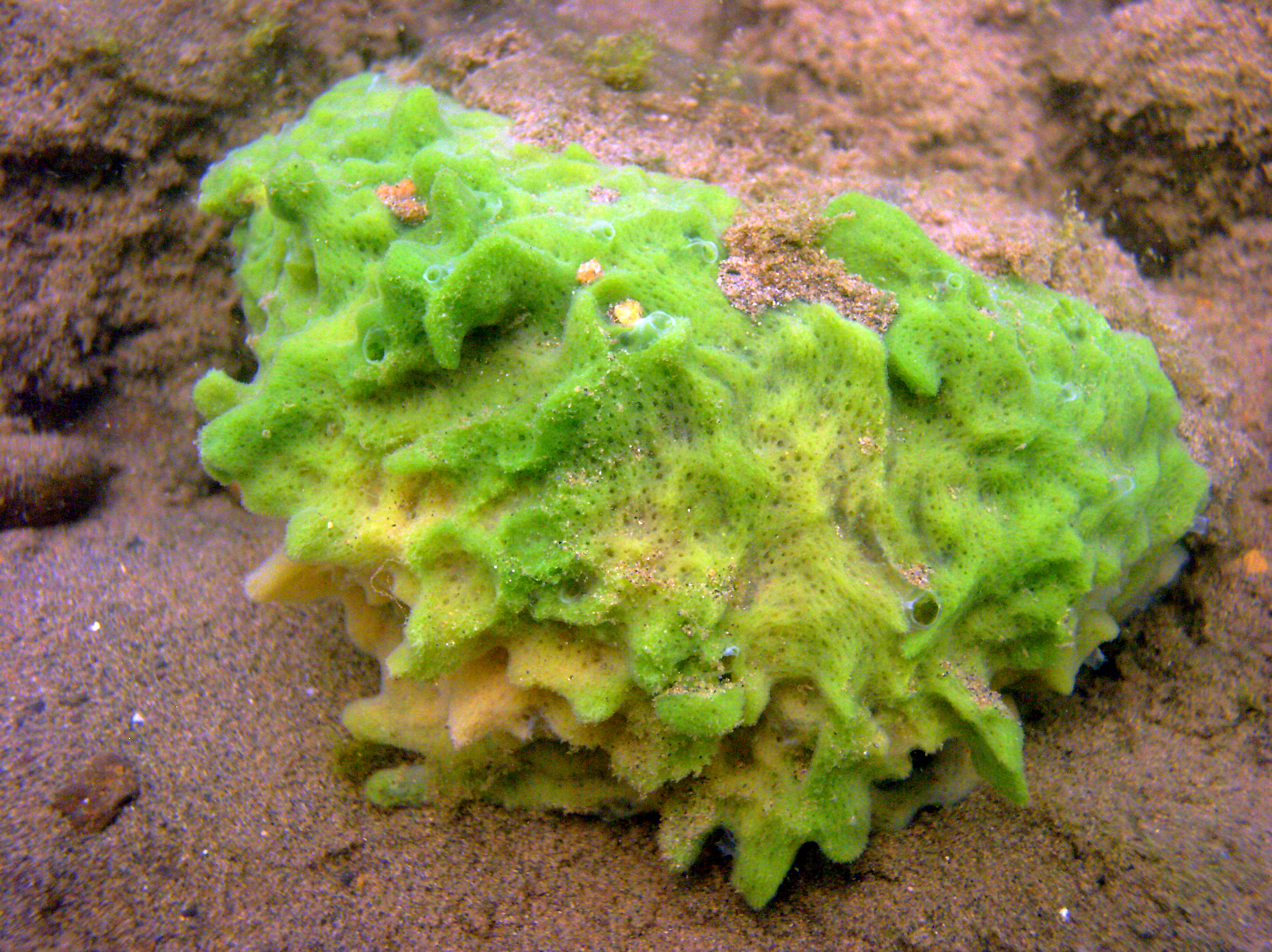 The freshwater sponge, Spongilla lacustris, in the Hanford Reach of the Columbia River in Washington State, USA.